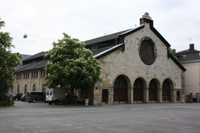 Concourse of the first railway station in Hof, Germany. The station was a terminus station. Verwendung prüfen / check usage